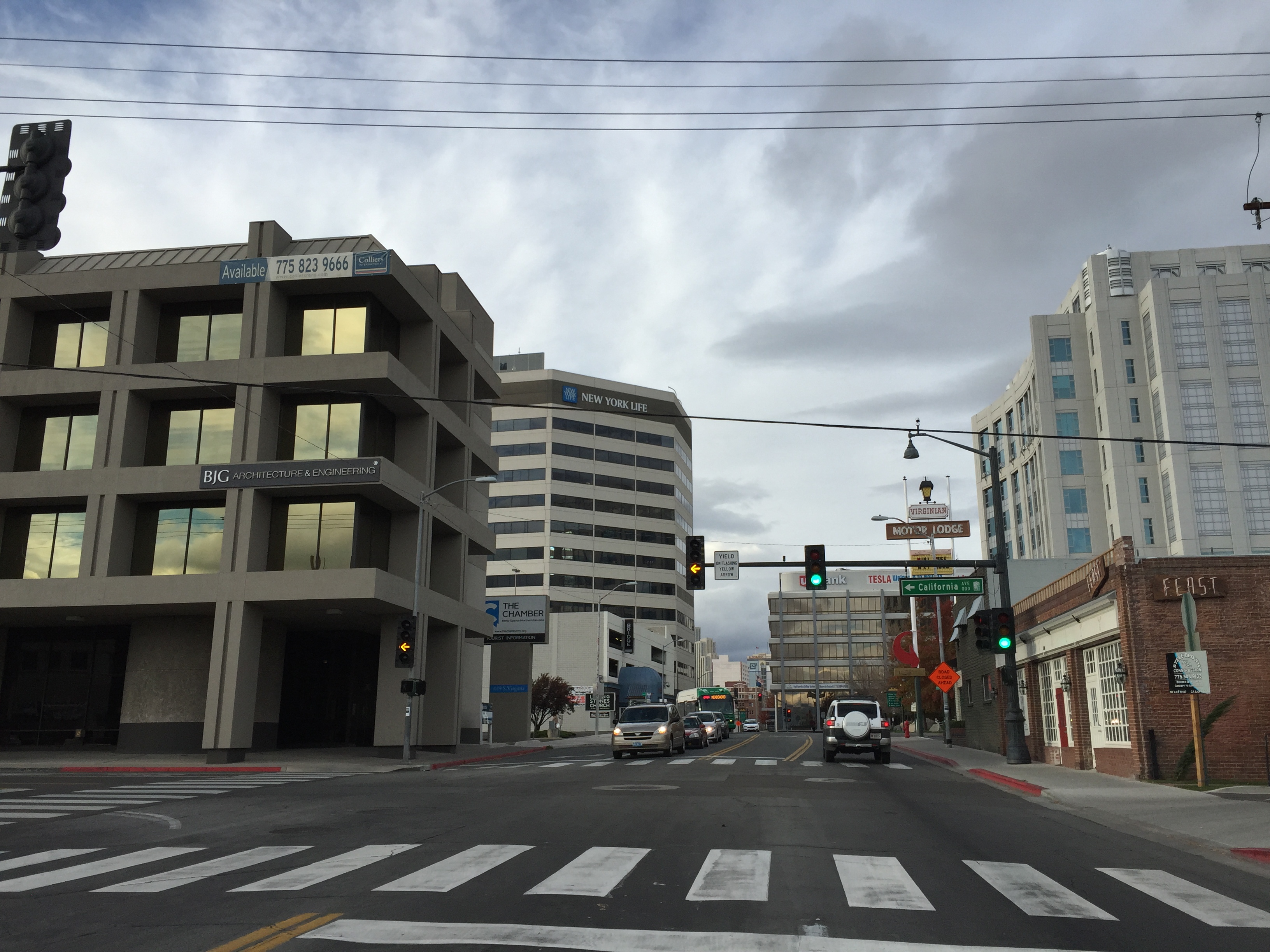 View north along Virginia Street (U.S. Route 395 Business) at California Avenue in Reno, Nevada